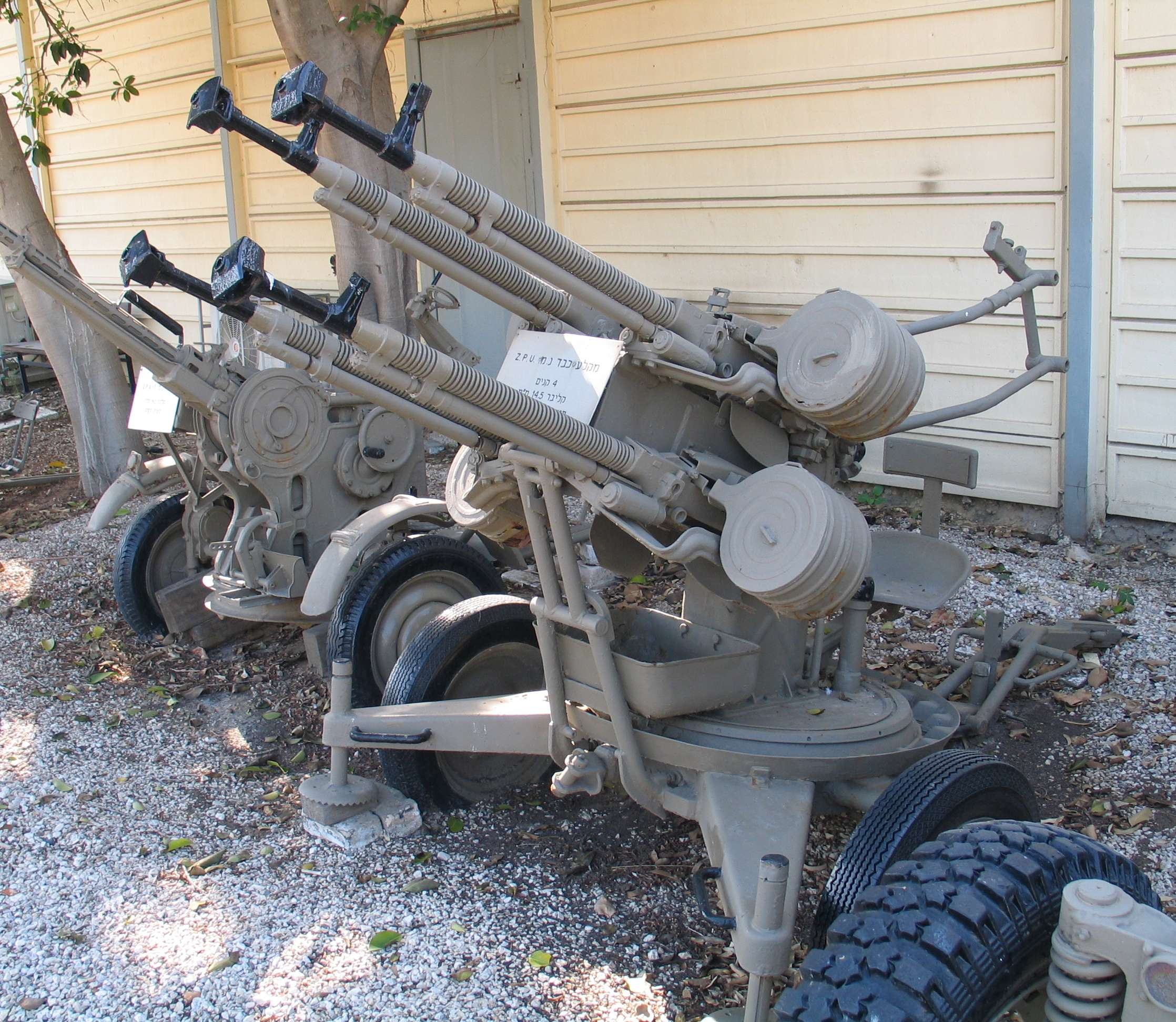 Quadruple DShK machine gun, Batey ha-Osef museum, Tel Aviv, Israel.